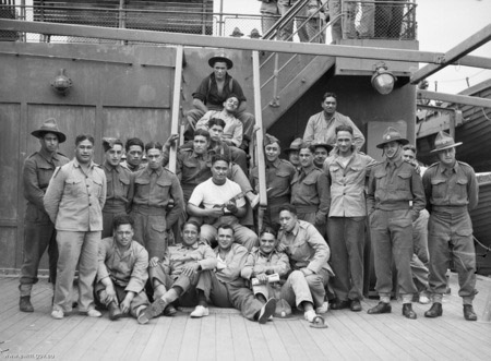 Reinforcements for the Maori Battalion, NZ Expeditionary Force, arrive in Sydney, Australia aboard HMT Batory